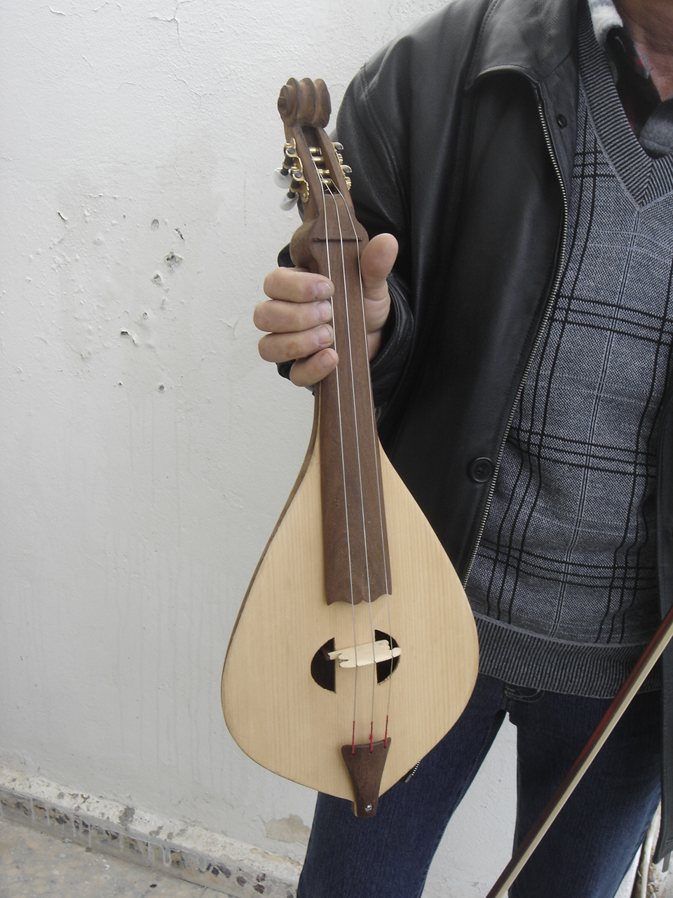 Α Cretan "lyra" musical instrument. Made by Nikolaos Nodarakis, from Agios Vassilios, Viannos, Iraklion Prefecture.